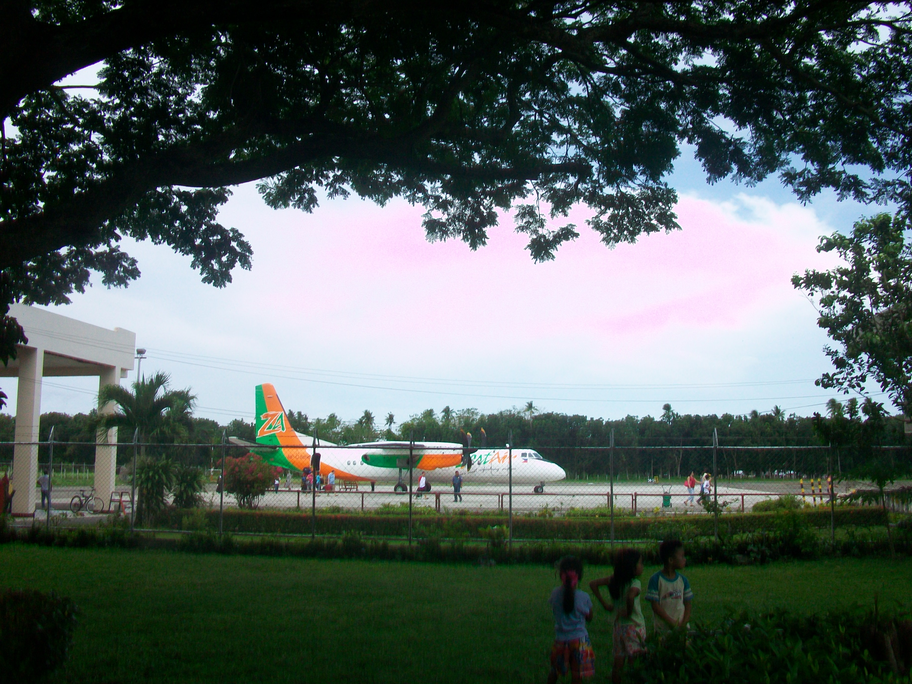 A domestic airport of Marinduque located at Brgy. Masiga,Gasan